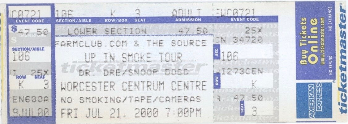 Ticket for Dr. Dre and Snoop Dogg's Up in Smoke Tour, held at Worcester Centrum Centre in Boston, Massachusetts; July 21, 2000.